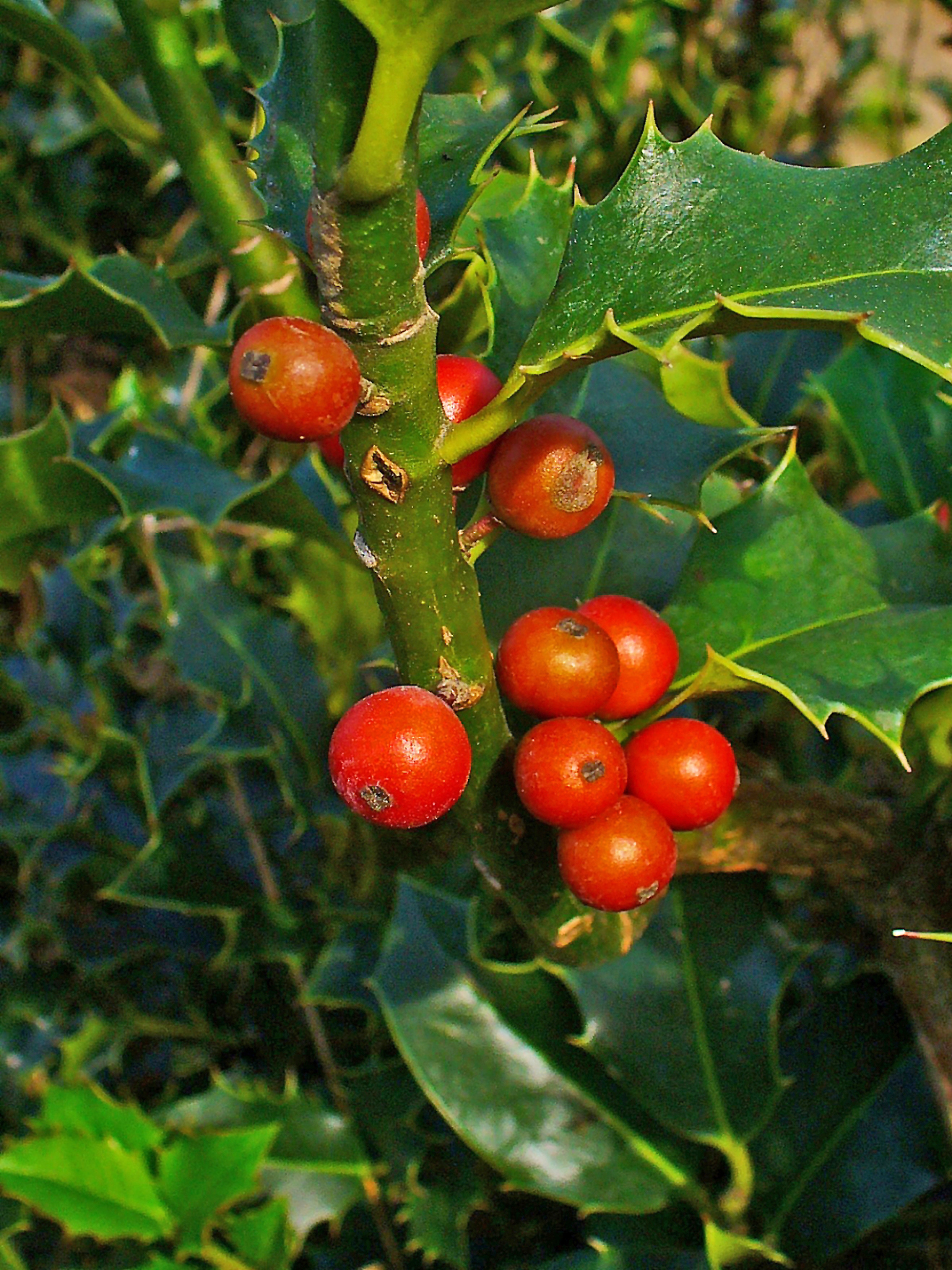 Ilex aquifolium, Aquifoliaceae, European Holly, fruits; Karlsruhe, Germany. The fresh leaves are used in homeopathy as remedy: Ilex aquifolium (Ilx-a.)